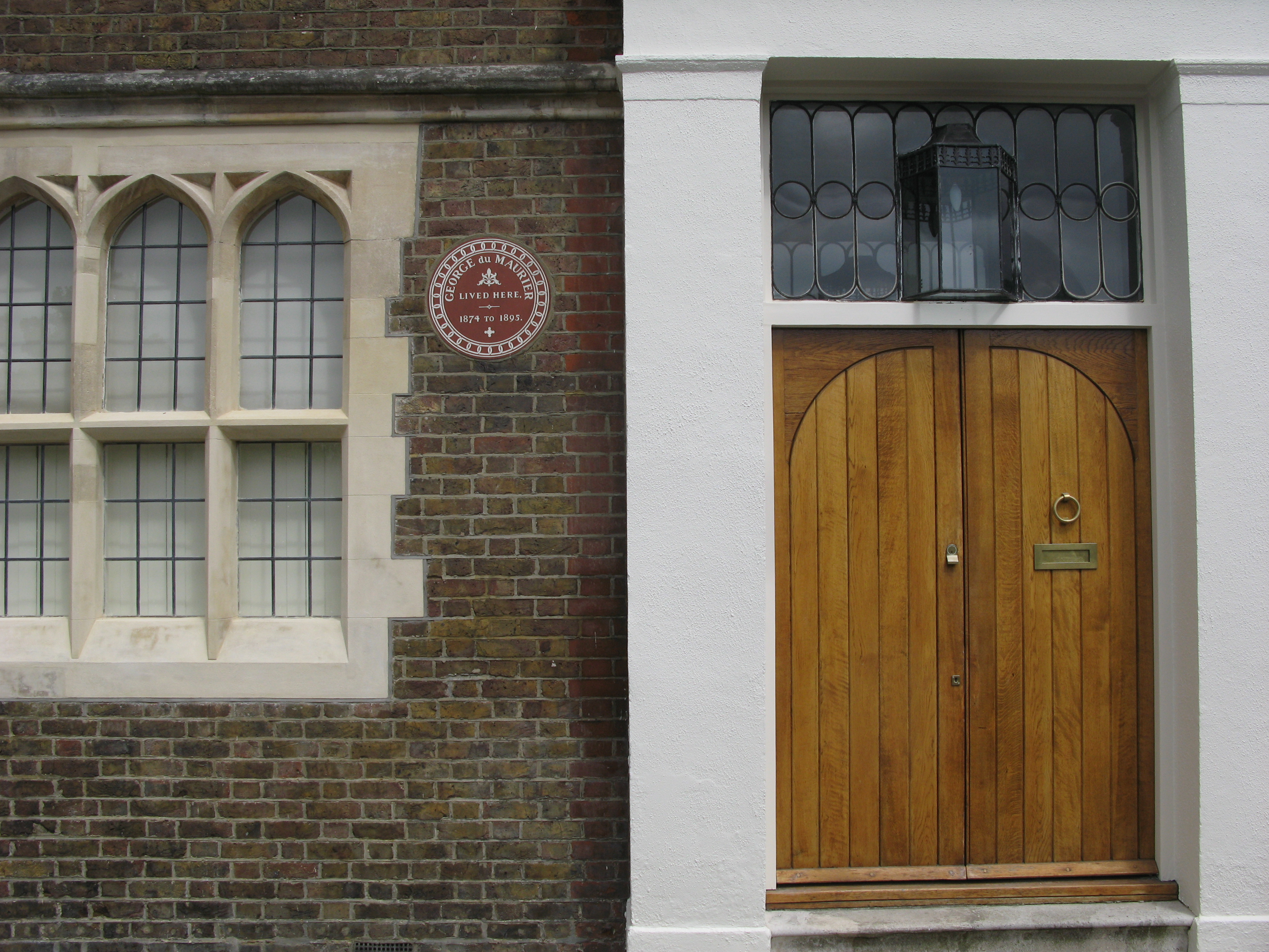 Plaque for George du Maurier, New Grove House, Hampstead Grove, London, England.